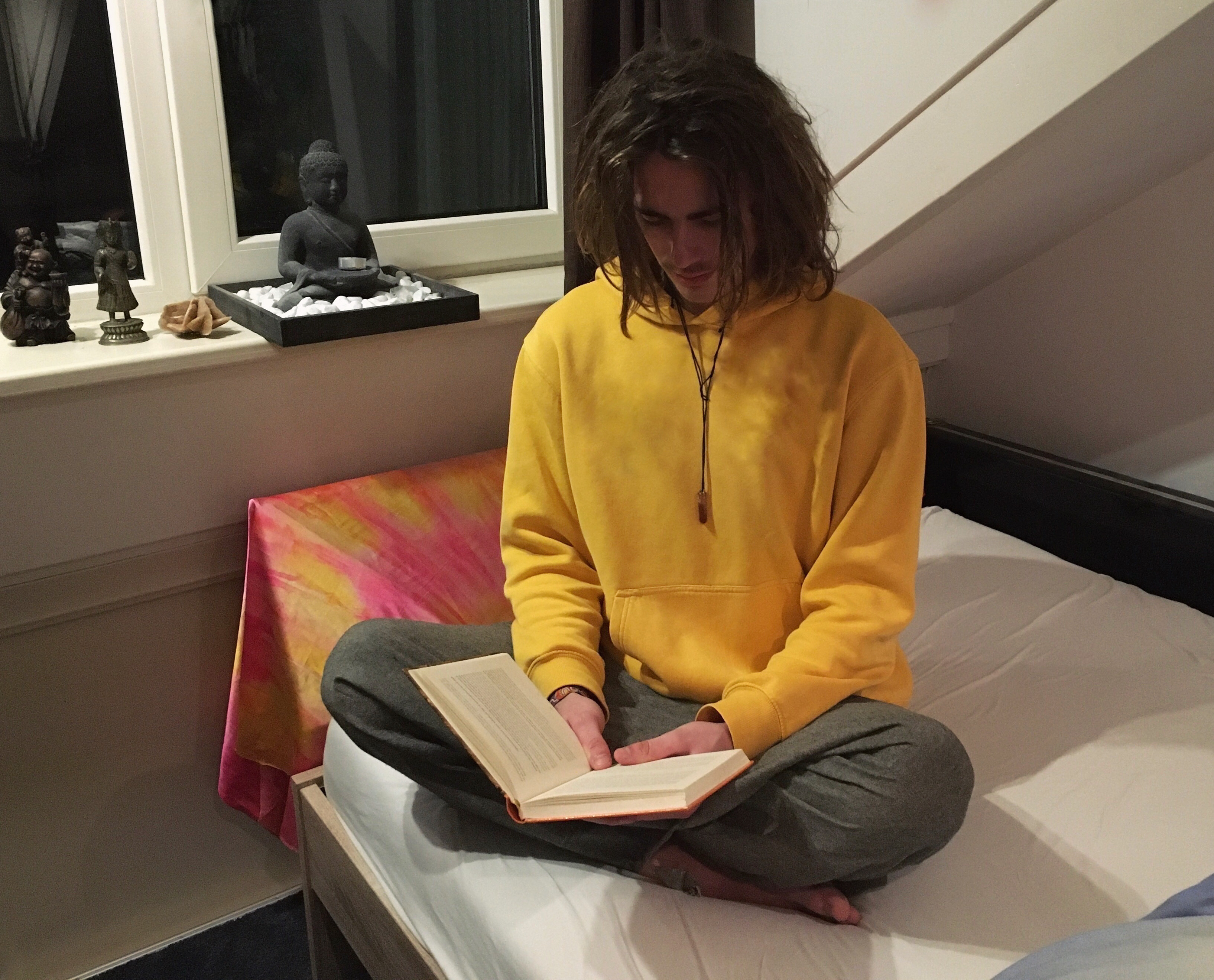 A Dharmist from the Netherlands studies teachings of the Gautama Buddha (the Dharma), on its own initiative.